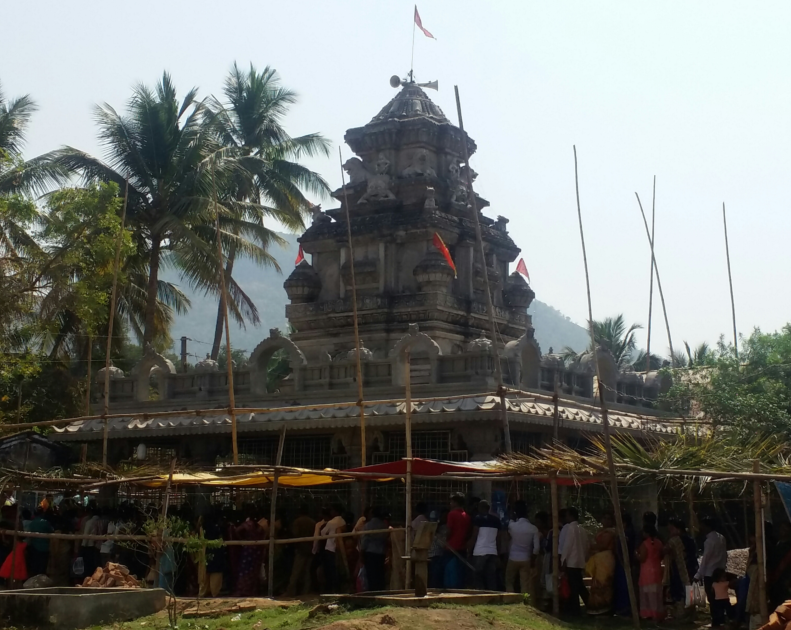 Bhimshankar Jyotirlinga(Dakinyam) temple at Bhimpur, Rayagada (Under construction)